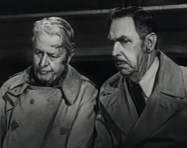 Reginald Owen (left) & Philip Tonge in the American TV-series One Step Beyond, episode The Dream - cropped screenshot